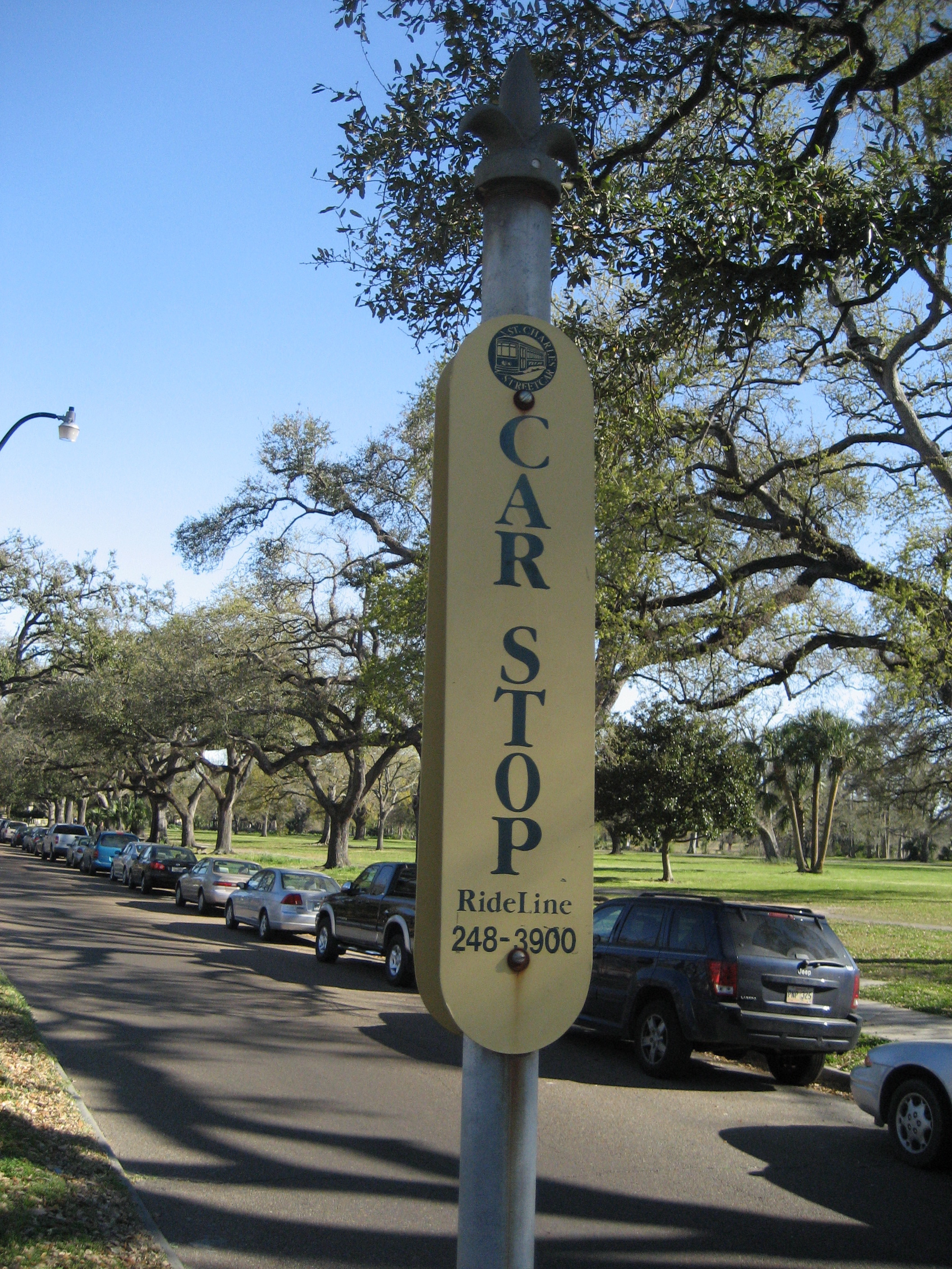 New Orleans: Streetcar stop sign & pole, St. Charles Avenue. View of Audubon Park in the background.